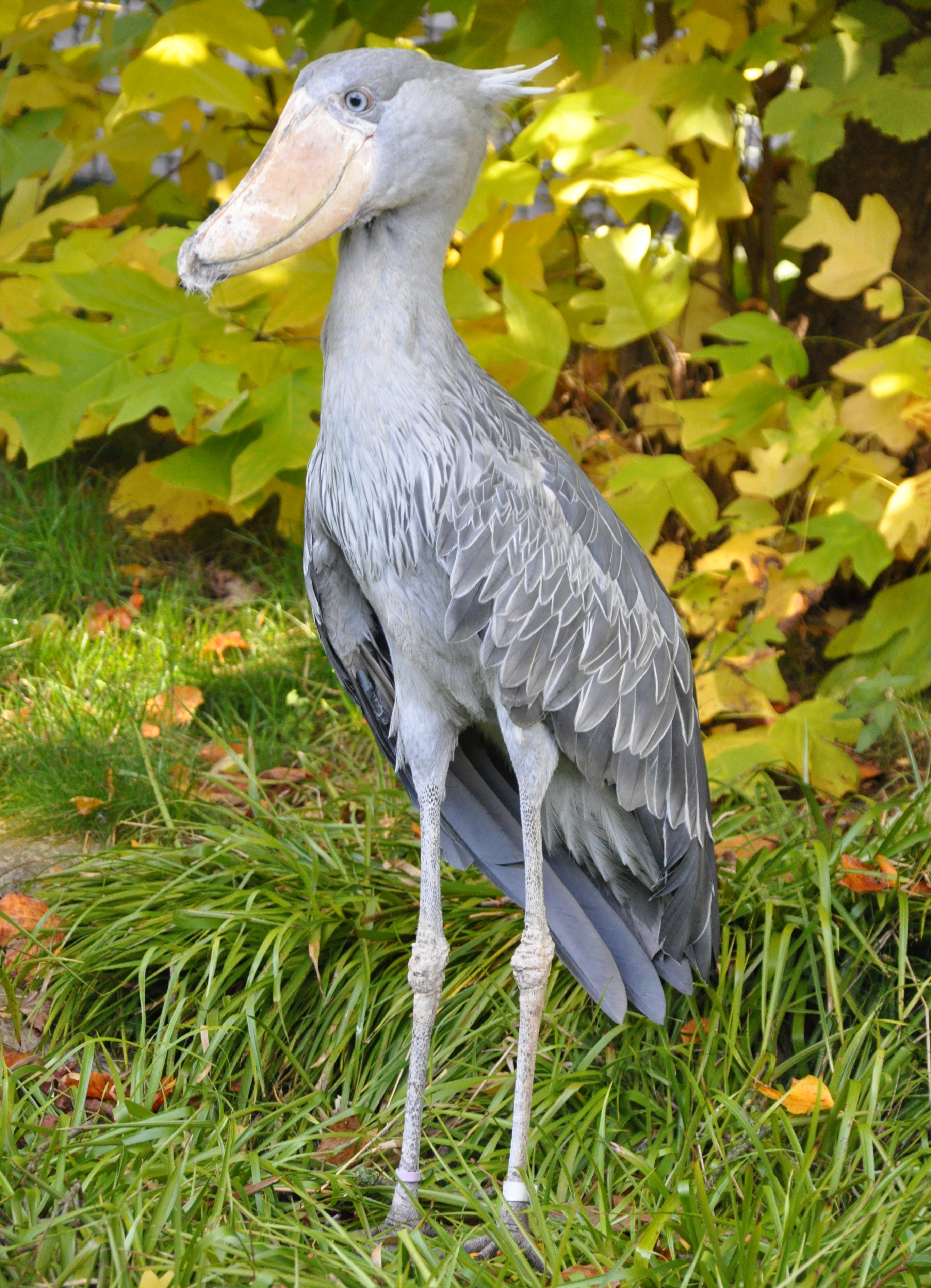 Shoebill(Balaeniceps rex) in the Walsrode Bird Park, Germany.